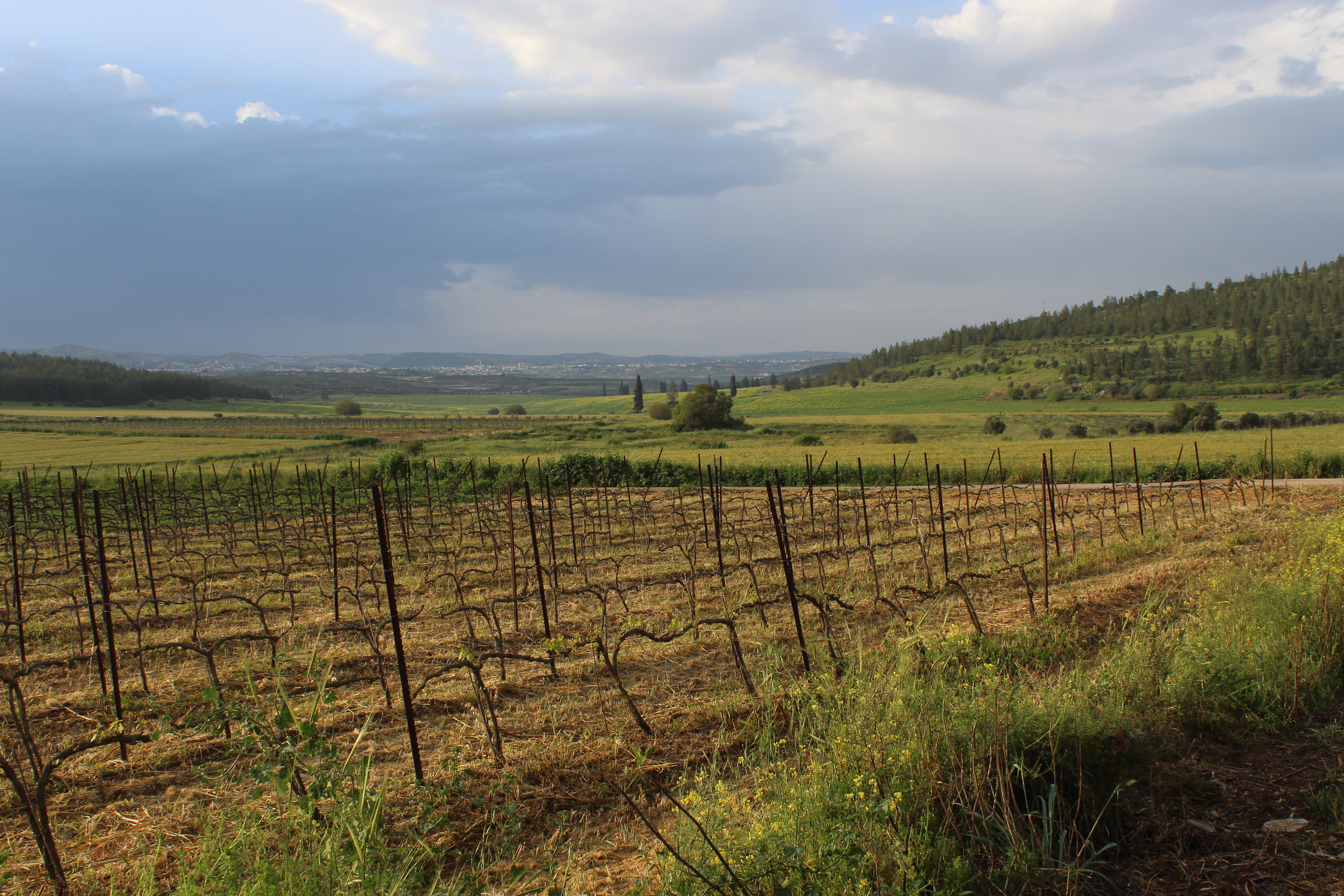 View of vineyard and fields in the largely agricultural district of the Adullam region (Israel)